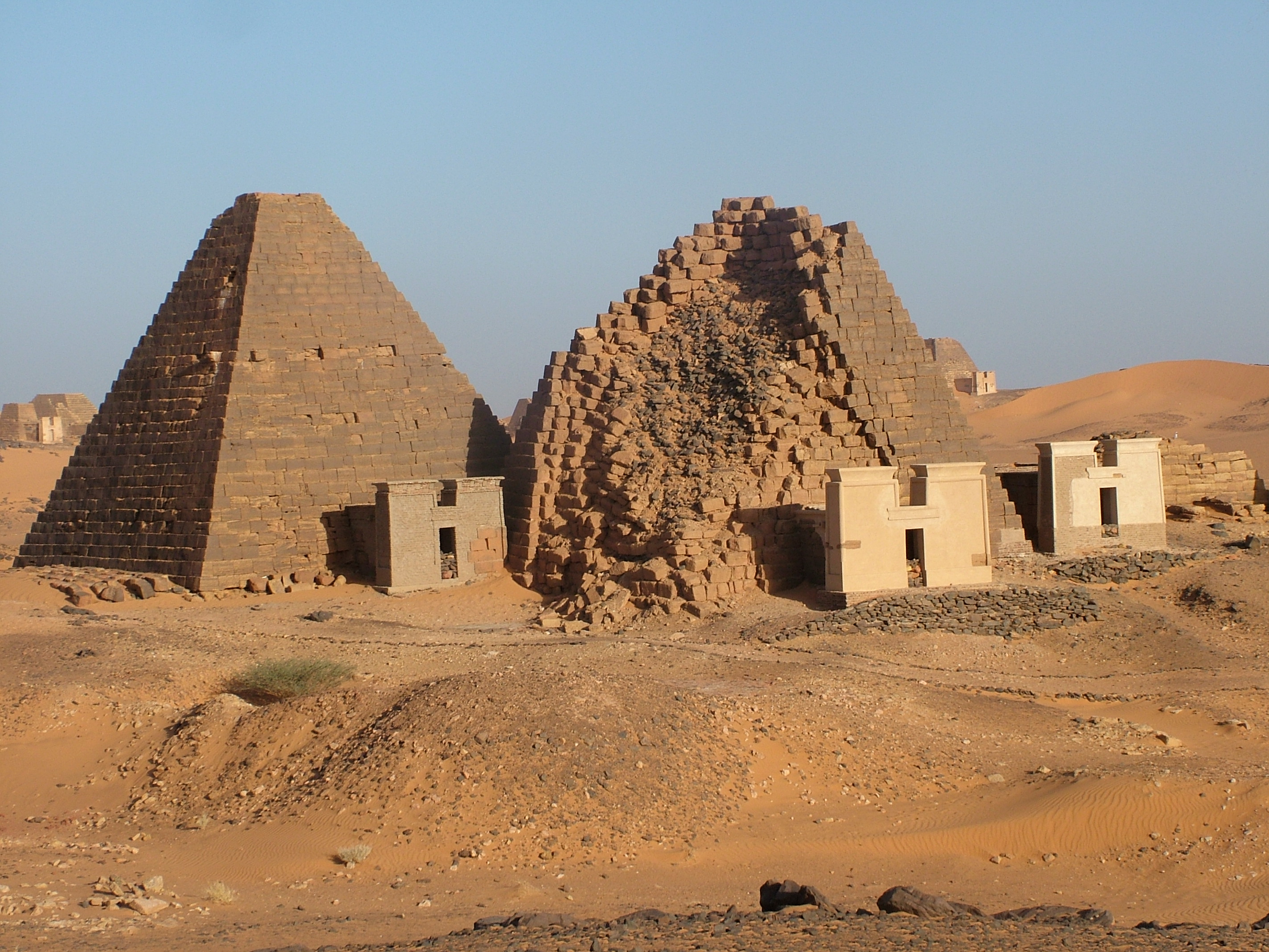 Meroe, royal cemetery at Begrawiyah, southern cemetery (BegS), Nubia, Sudan